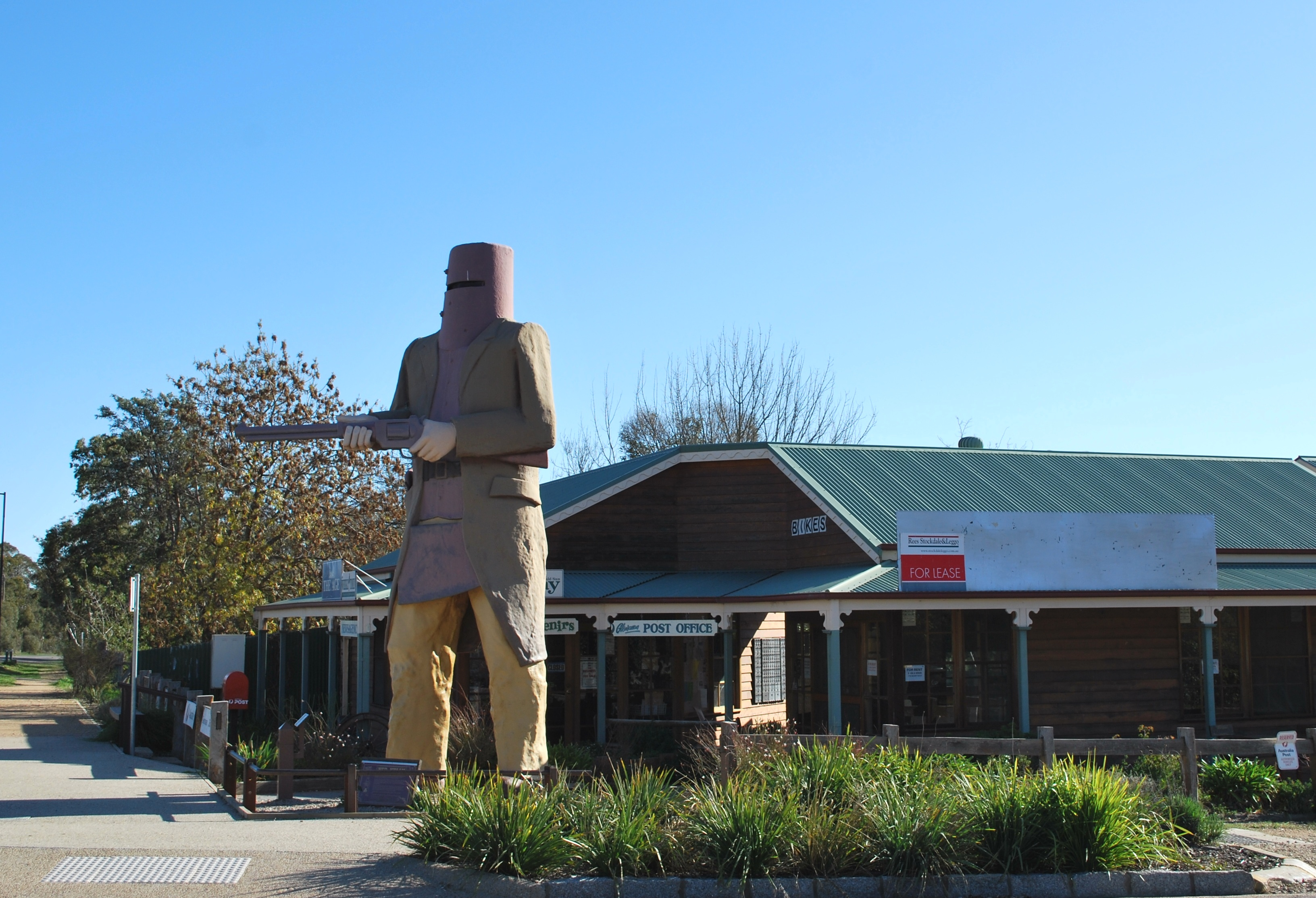 A large statue of Ned Kelly at Glenrowan, Victoria